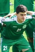 Japan & Turkmenistan Group F match, 2019 AFC Asian Cup